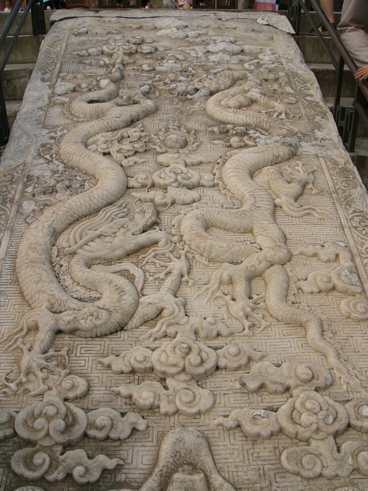 Temple of Heaven, Beijing